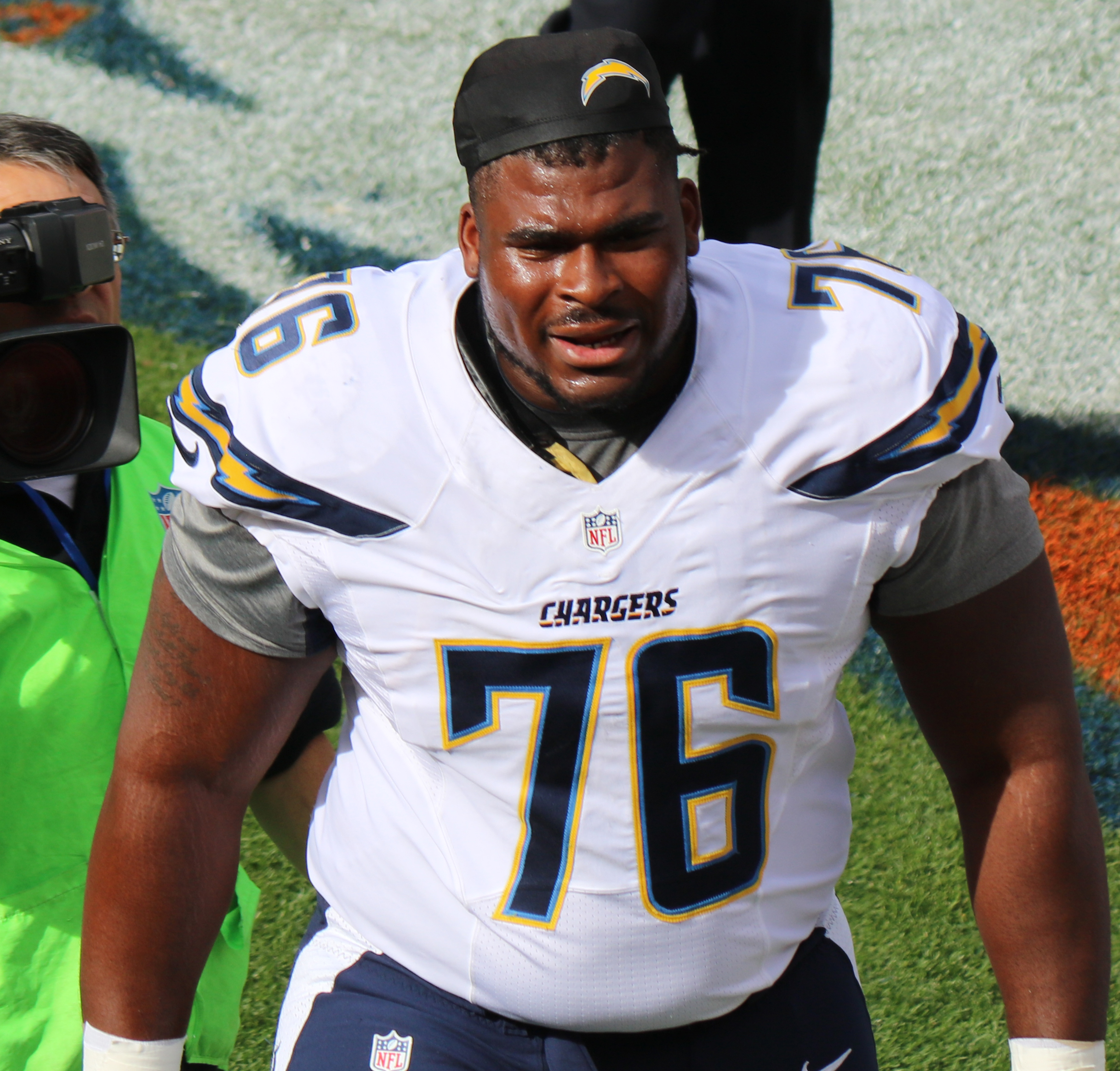 D. J. Fluker, a player on the National Football League.